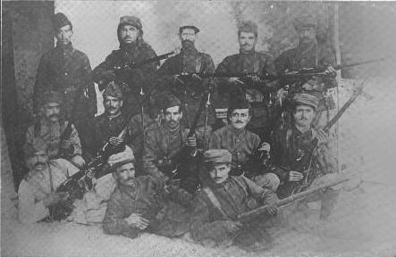 Freedom fighters of Musa Dagh